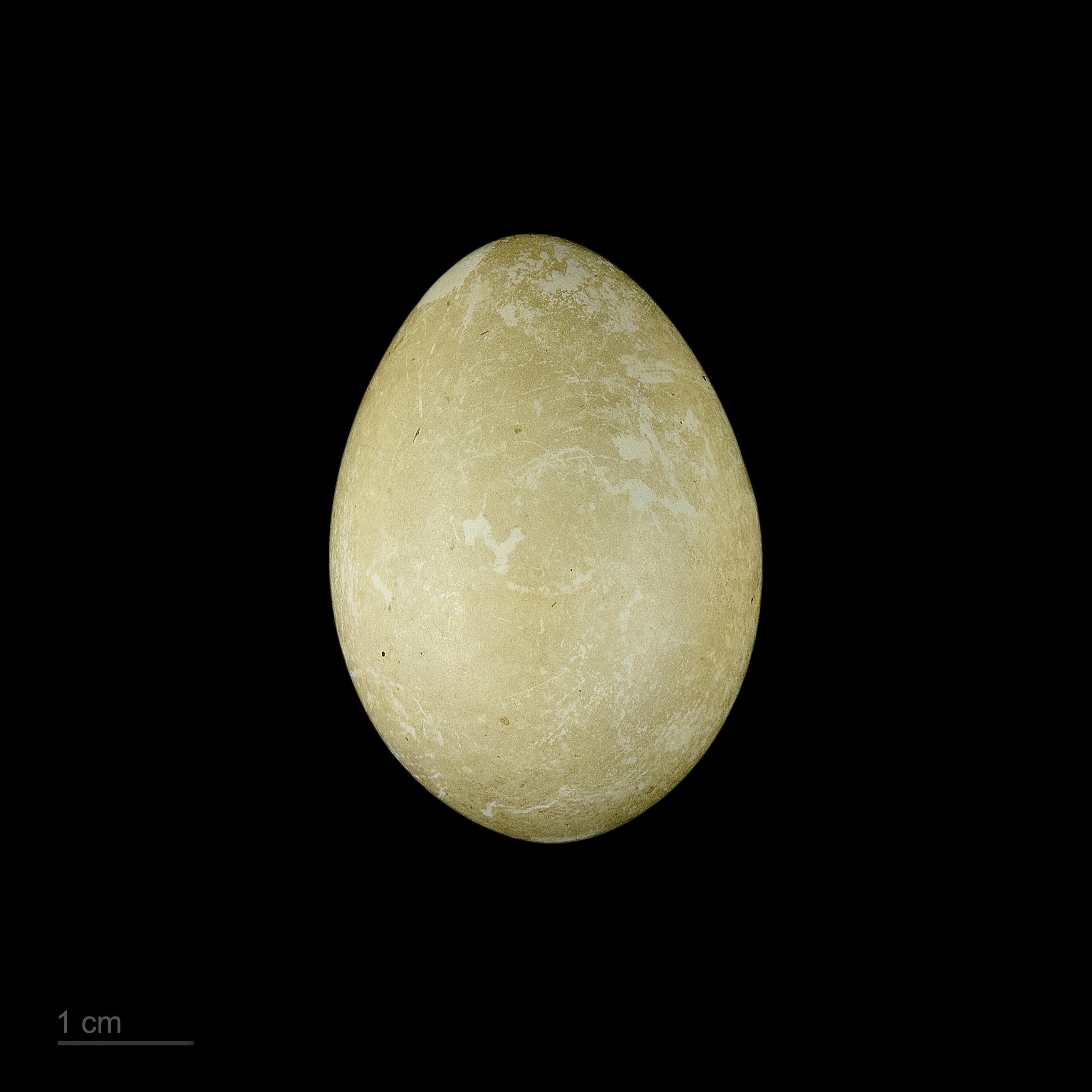 Eggs of horned grebe collection of Jacques Perrin de Brichambaut.